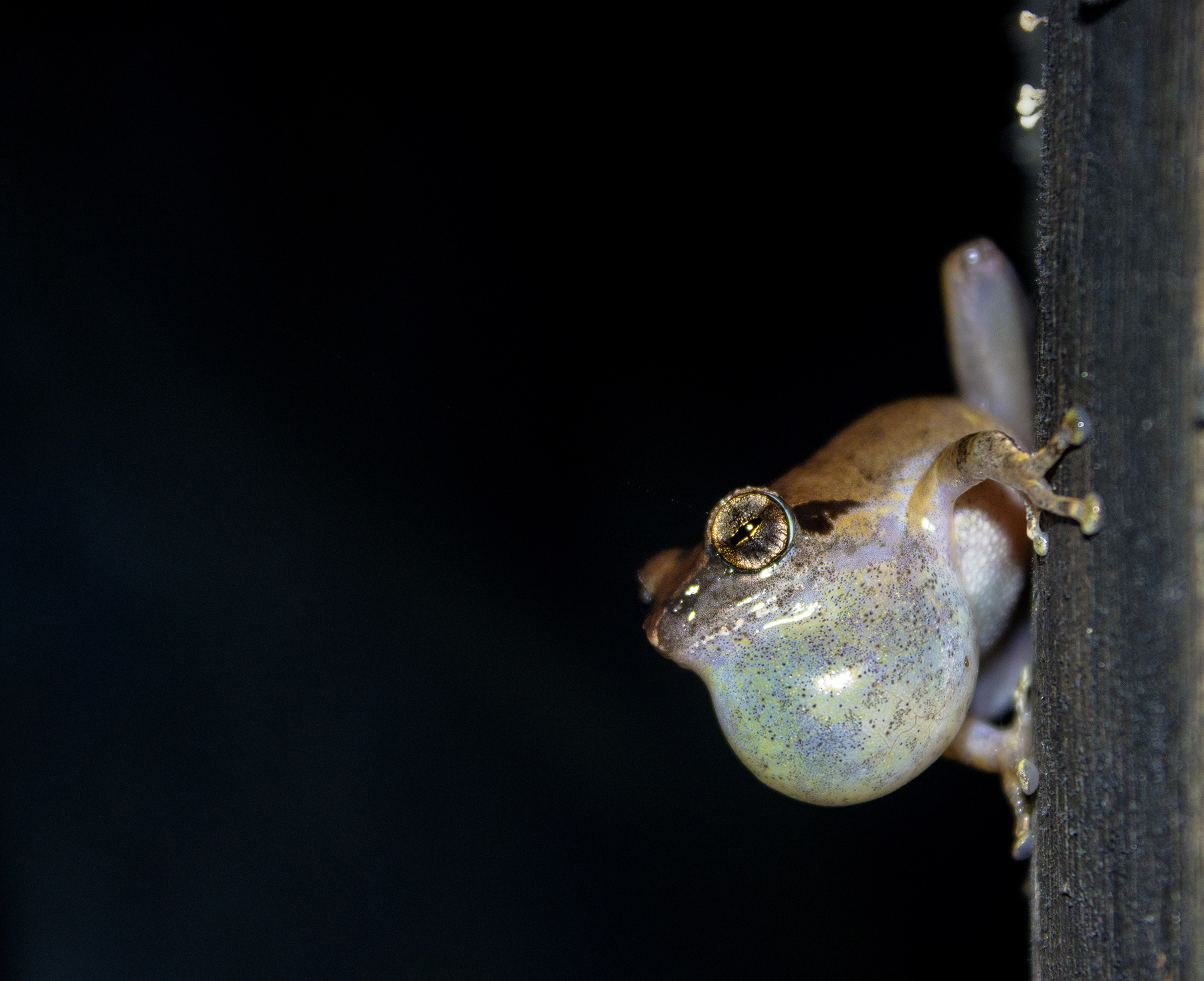 Amboli Bush Frog, a rare endemic arboreal tree frog from the Western Ghats of India, displays spectacular mating calls during the heavy monsoon, which can usually exceed 8000-10,000 mm a year. The males are usually smaller than the females and are carried to fertilize the eggs. The species is severely endangered with only small pockets left in the region's evergreen forest. This male was found close to the huts of Kalinga Rainforest Conservation Center in Agumbe, Karnataka, India.